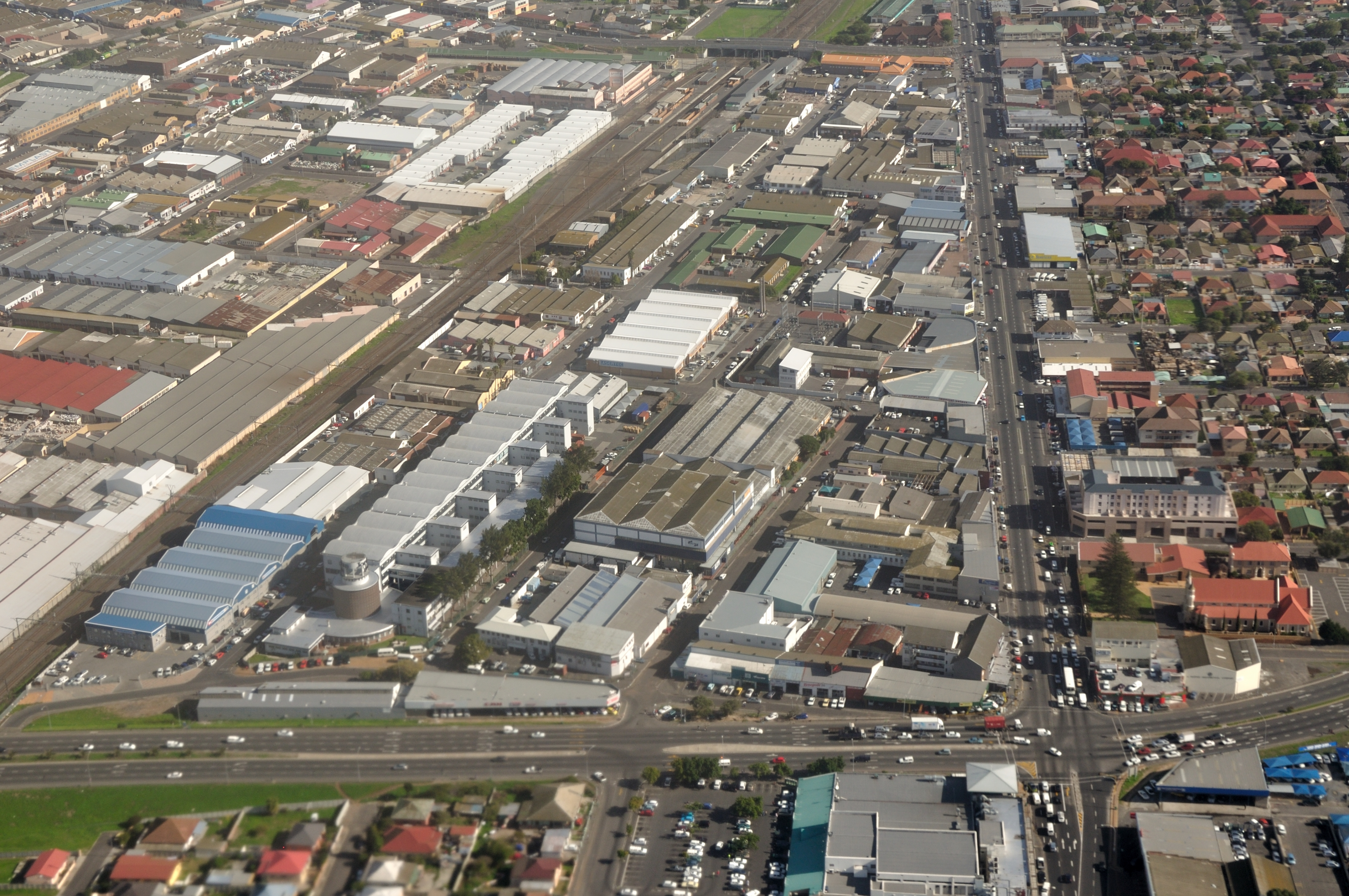 South Africa, picture from a flight from JNB to CPT. For exact location see geocode.